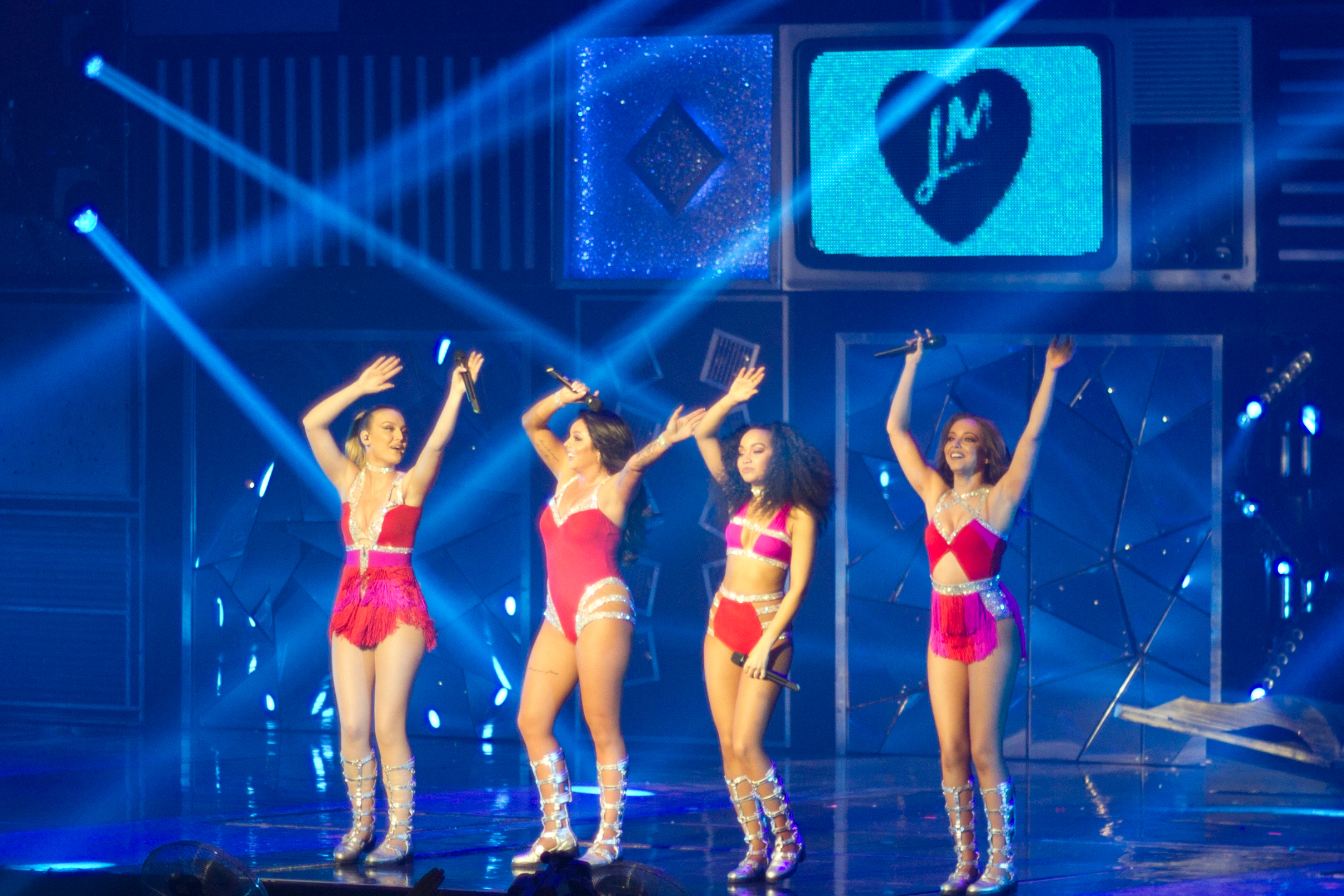 Little Mix